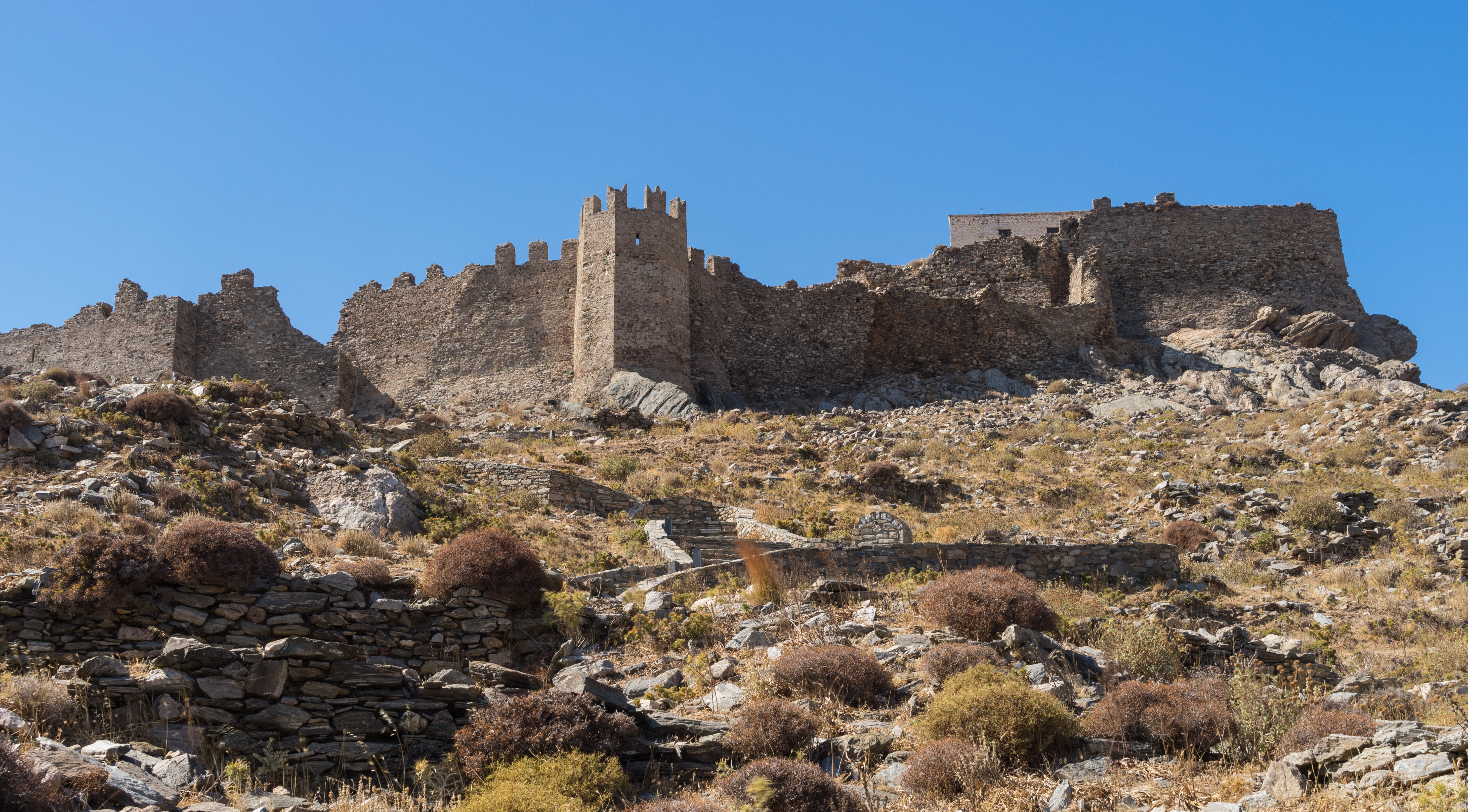 Kokkinikastro (Castel rosso), Karystos, Euboea, Greece.